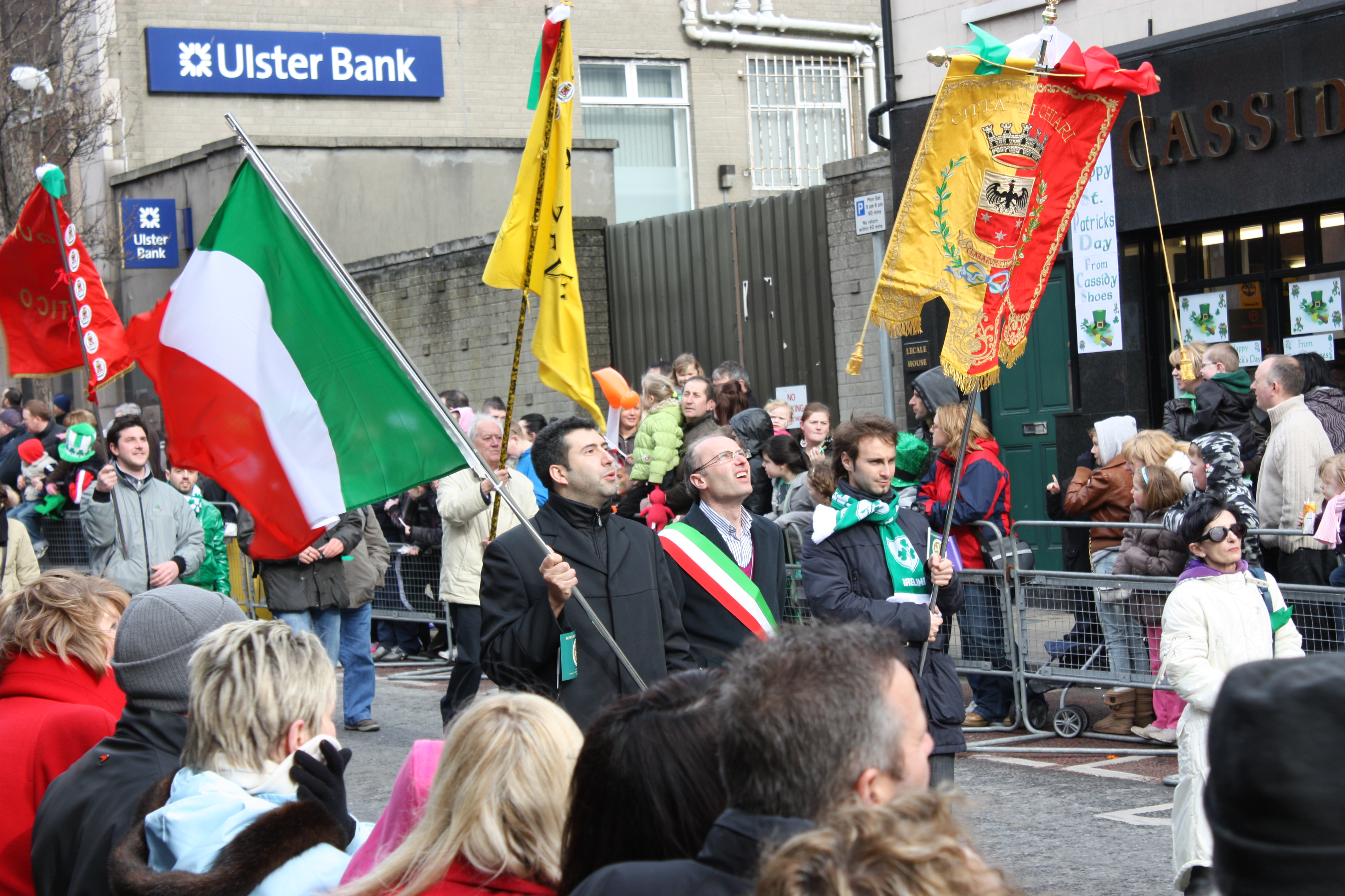 From Italy, Saint Patrick's Day parade, Market Street, Downpatrick, County Down, Northern Ireland, March 2010